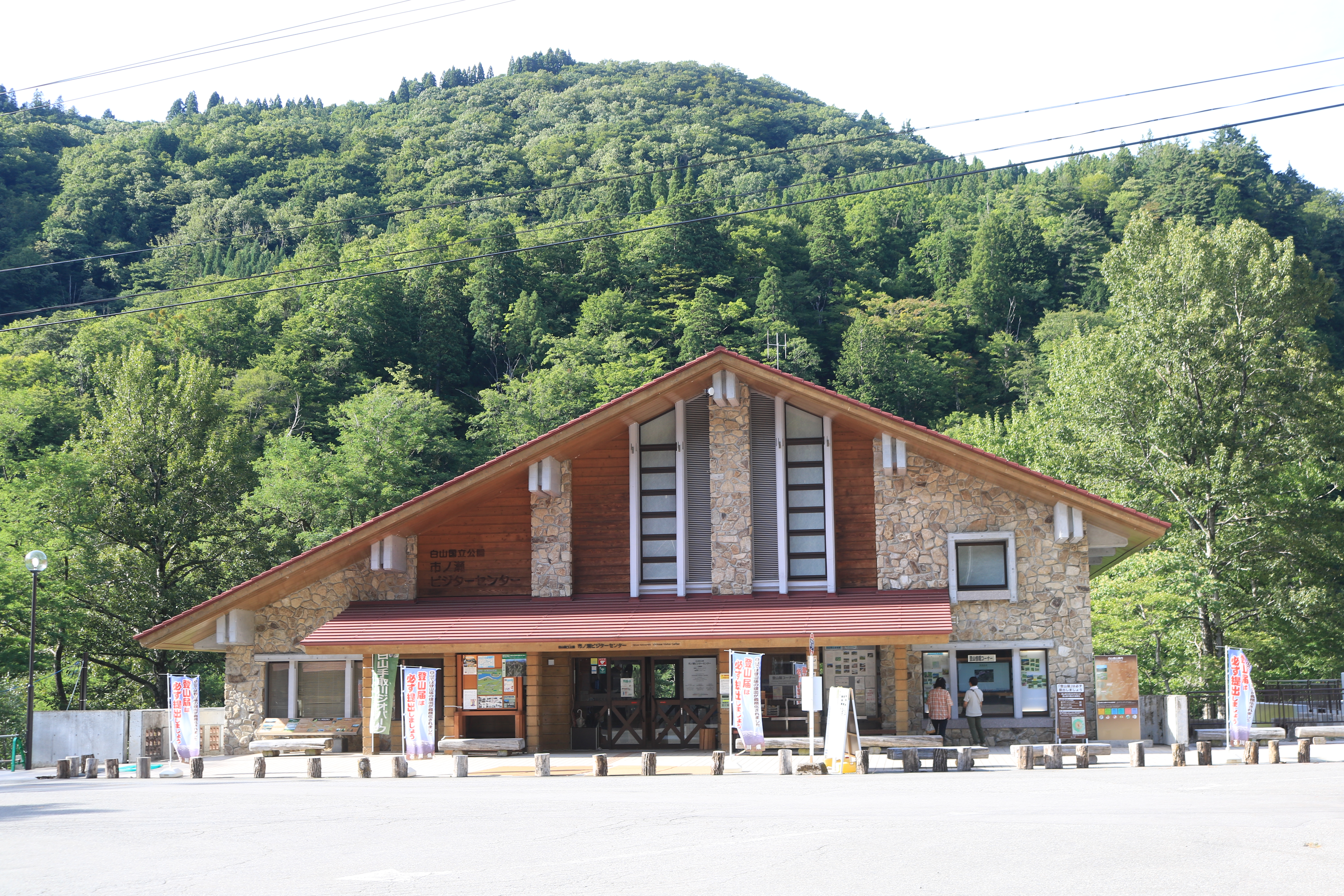 Ichinose Visitor Center in Shiramine, Hakusan, Ishikawa Prefecture, Japan.